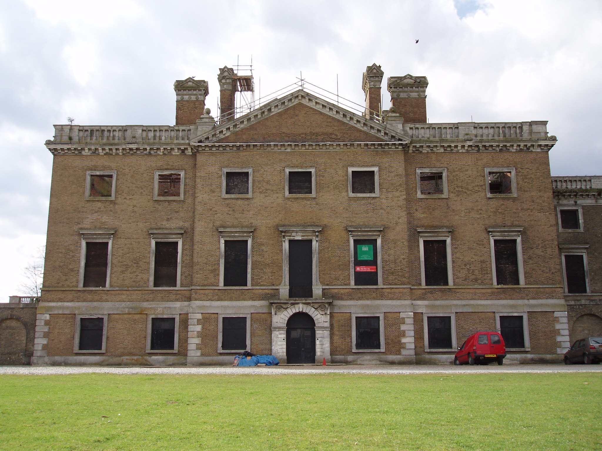 The Eastern elevation - April 2004